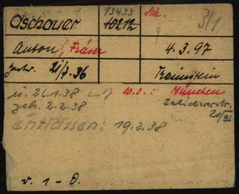 Registration card of Anton Aschauer as a prisoner at Dachau Nazi Concentration Camp. Date of birth has a typo (14, not 4).